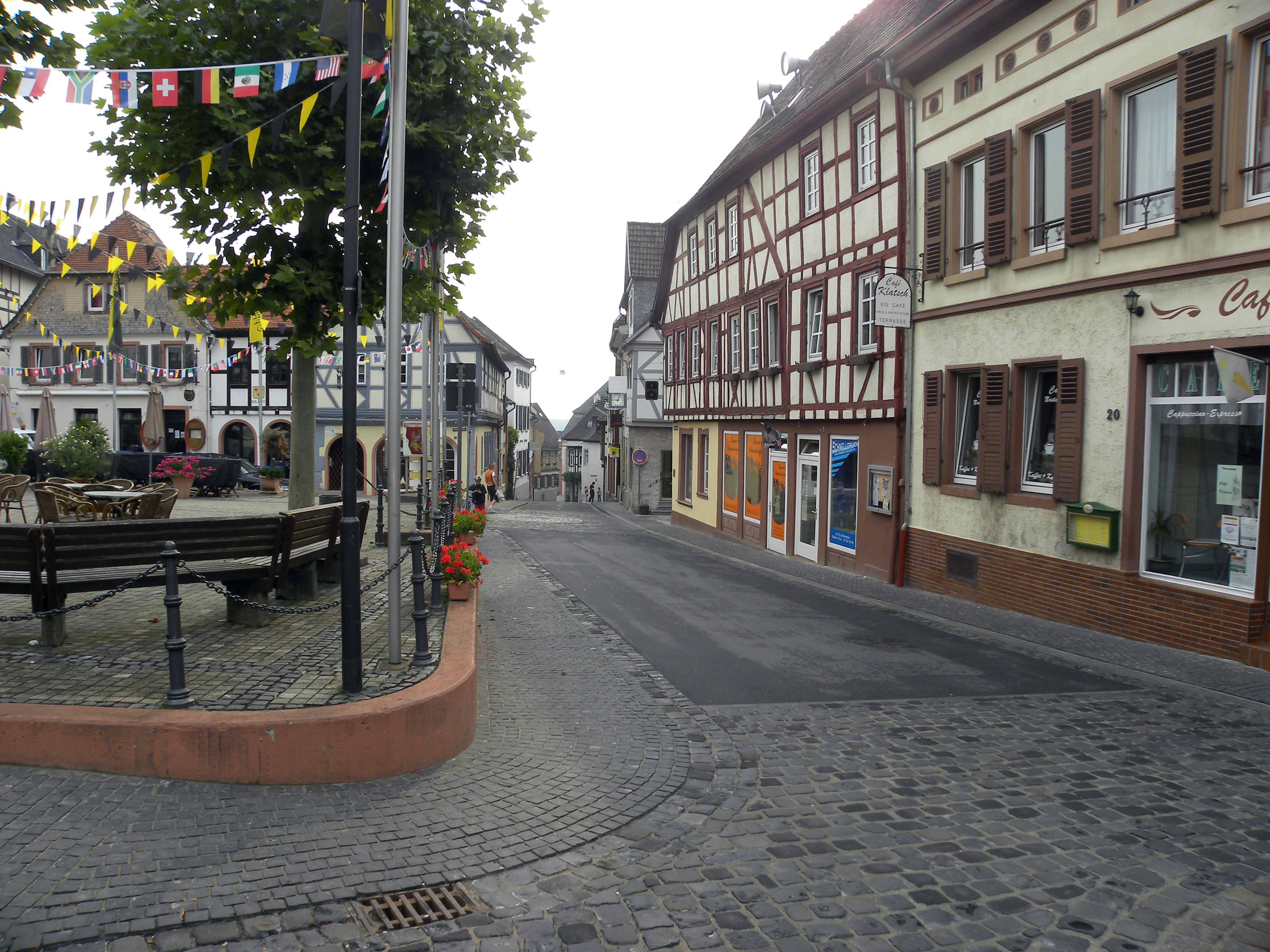 Oppenheim, Germany, town square.